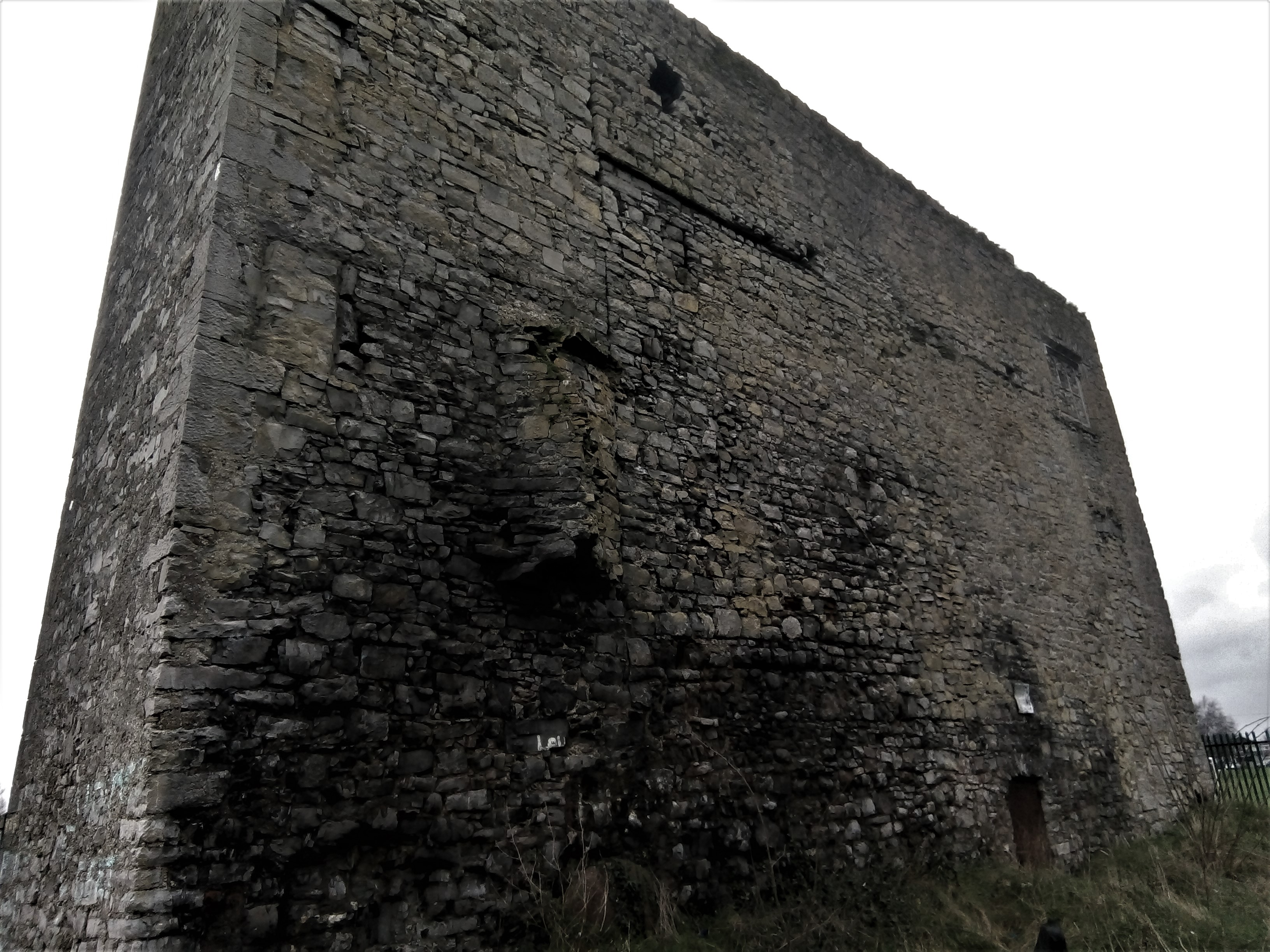 Woodstock Castle, Athy